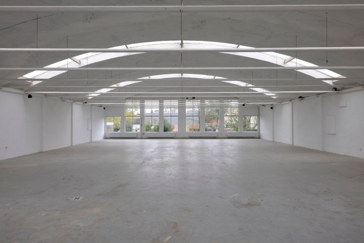 Art Space upper level